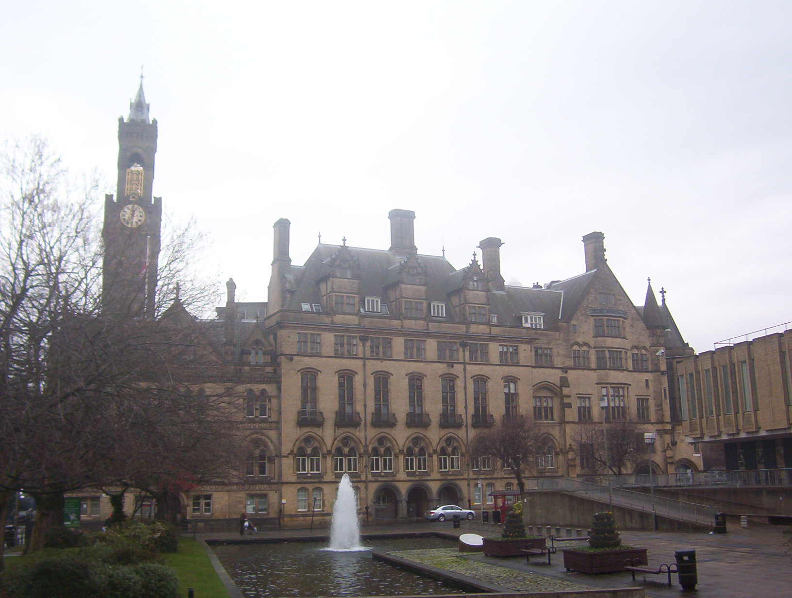 Bradford City Hall located in the centre of Bradford and houses Bradford Council. It was built during the Victorian period.